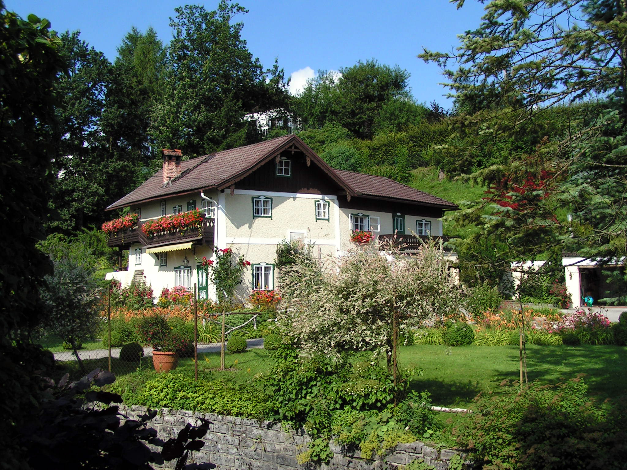 Das ehemalige Wohnhaus "Wiesmühl" von Carl Zuckmayer in Henndorf am Wallersee : The house of Carl Zuckmayer in the town Henndorf am Wallersee, Austria Source: own work Date: July 2004, Henndorf am See, Austria Author: Maschinenjunge Licence: GFDL, cc-by 3.0 de: Henndorfer Kreis